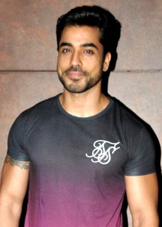 Gautam Gulati at the screening of Shubh Mangal Savdhan.